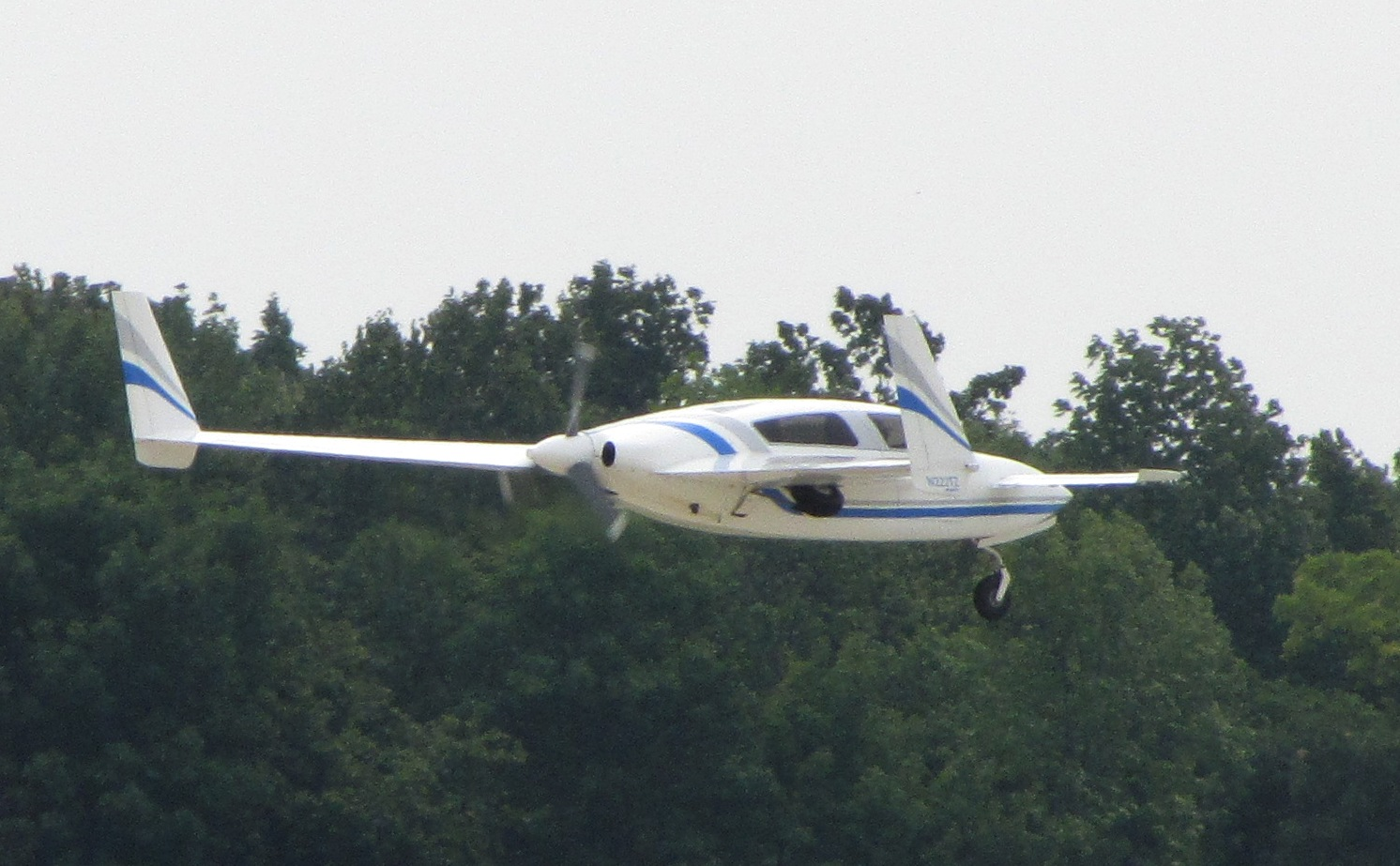 Velocity gear retract